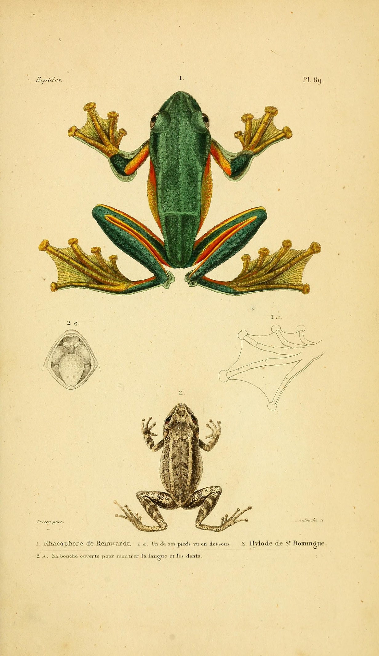 Black-webbed tree frog Rhacophorus reinwardtii (Anura: Rhacophoridae) and Hylodes from St. Domingue.